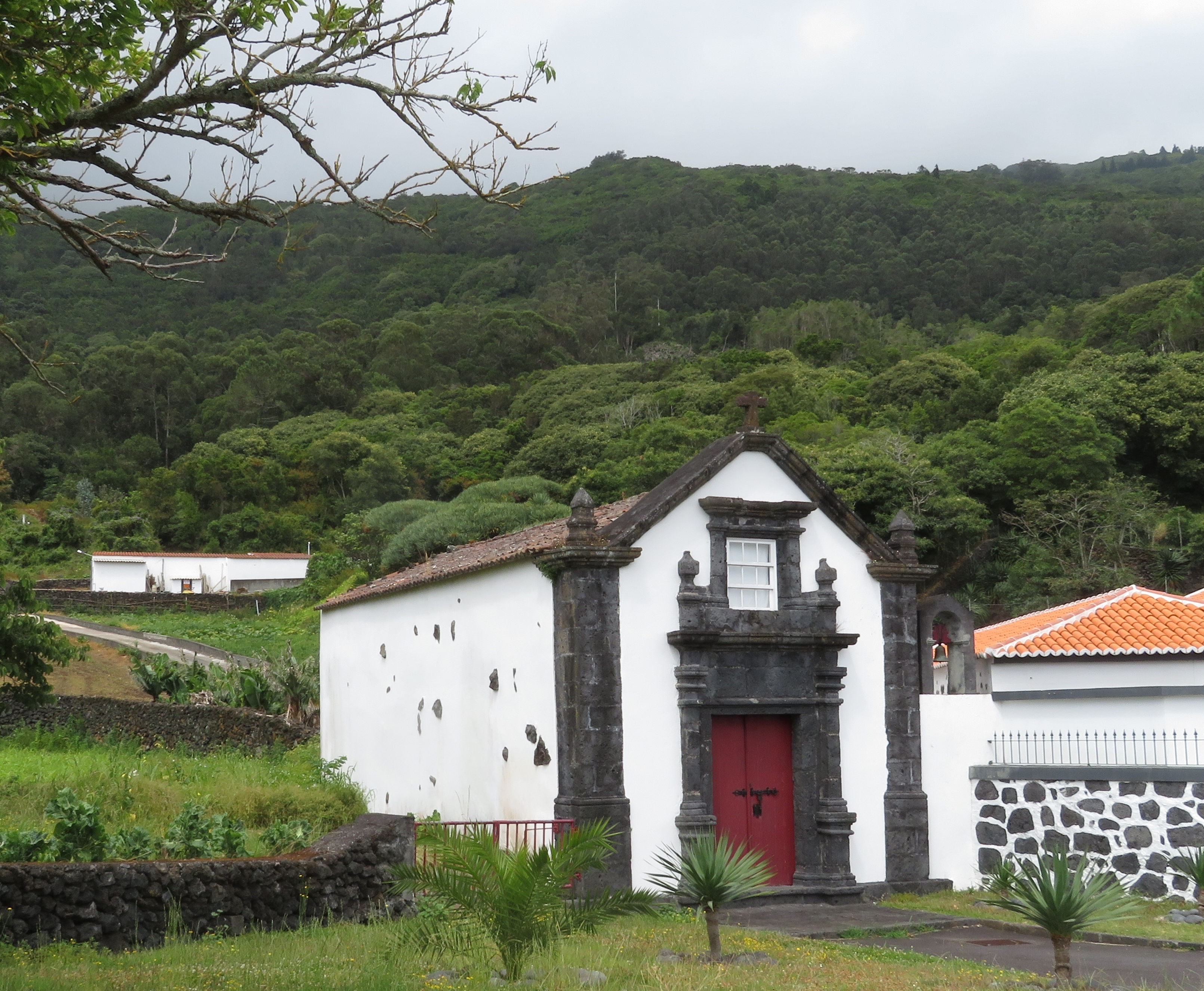 Chapel "Ermida do Senhor Jesus da Boa Morte" in Urzelina, island of S. Jorge, Azores, Portugal